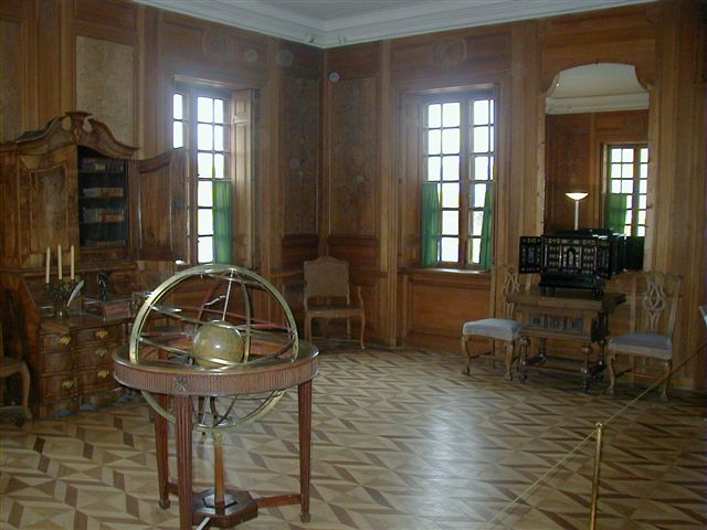 French style interior of the Peterhof, some sort of science or study room.